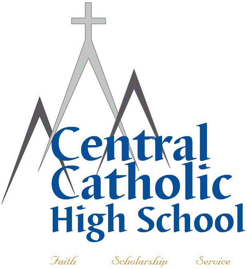 New Logo